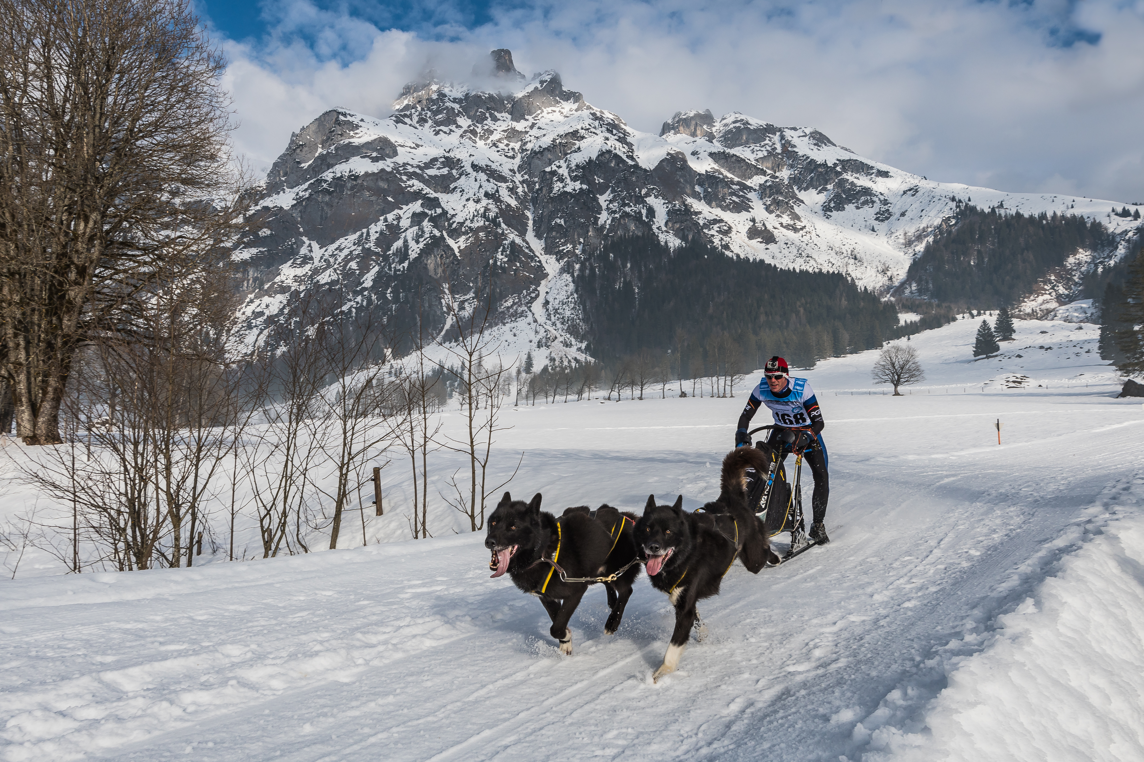 22. Int. Schlittenhunderennen in Werfenweng, January 13 and 14, 2018; Category D2 ( 2 Samoyedes / Alaskan Malamute / Greenland dog)/ STAWOWCZYK Waldemar